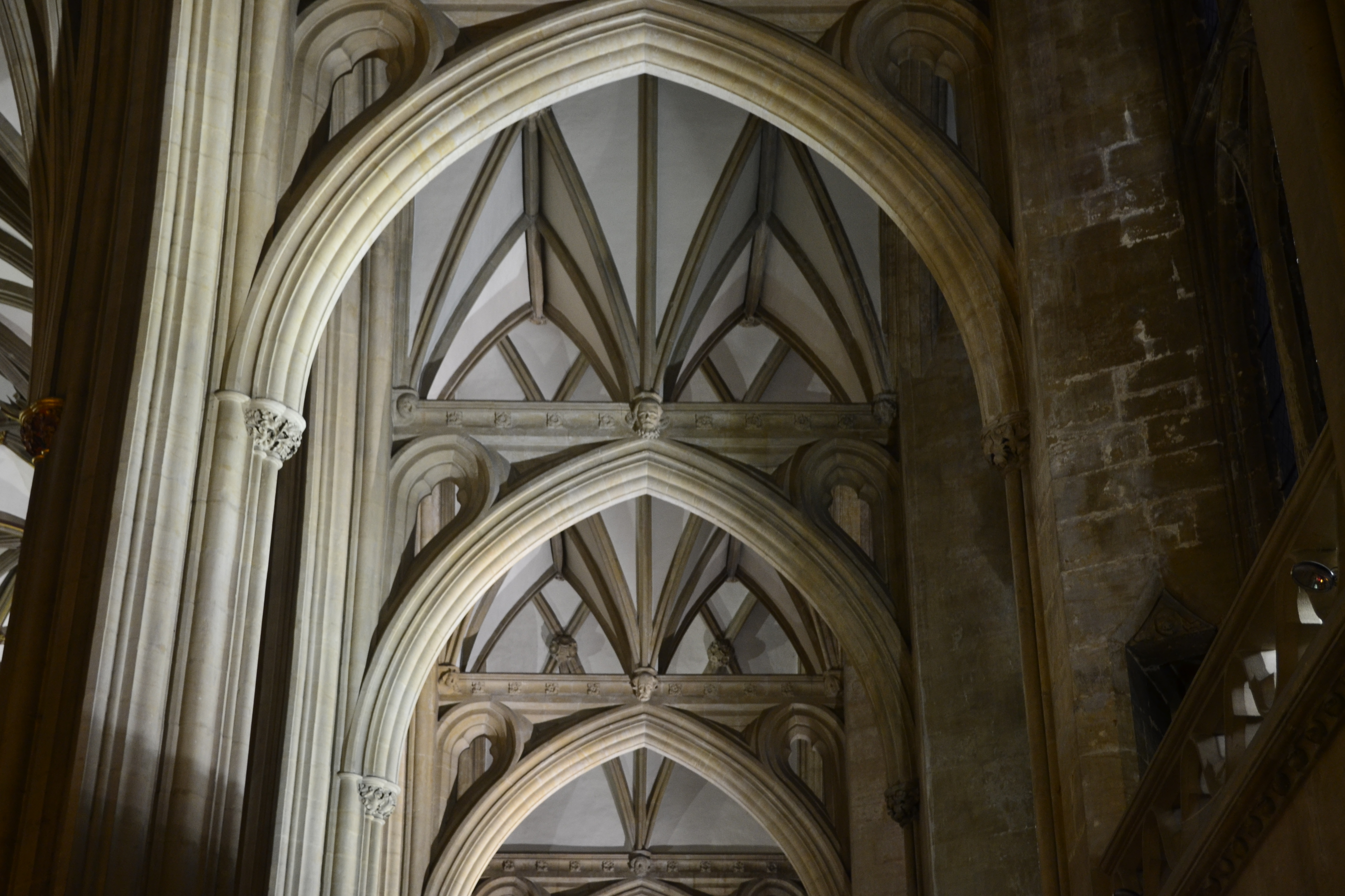 The unique architecture in Bristol Cathedral allows full heigh aisles using stone bridges across the North and South aisles